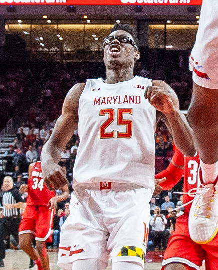 a layup in an Ohio State-Maryland matchup